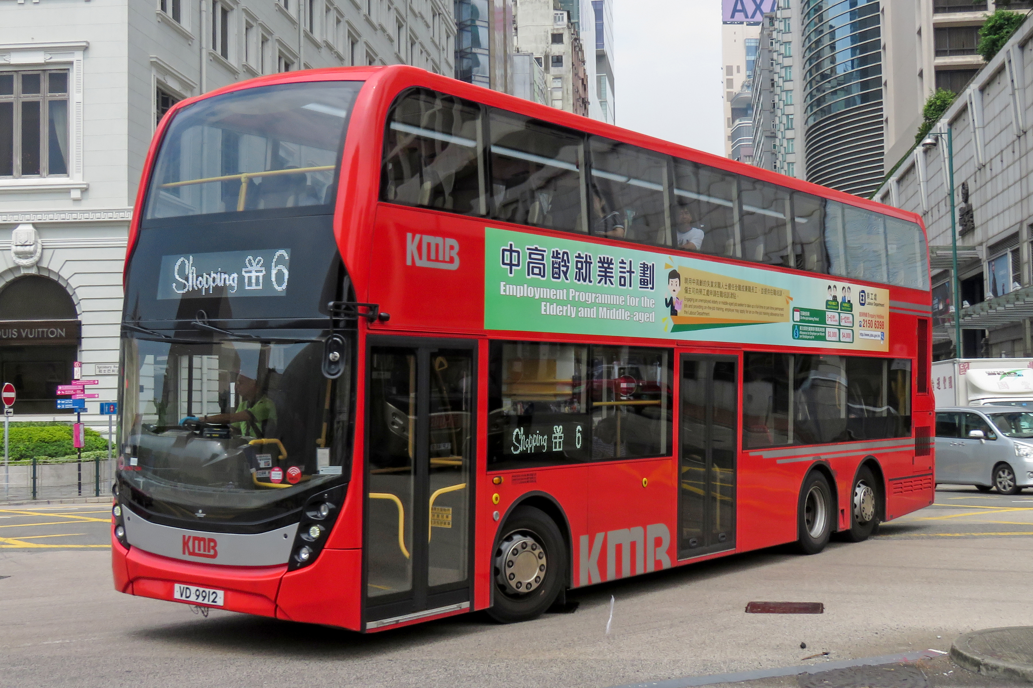 Nathan Shopper Route comes with white LED.